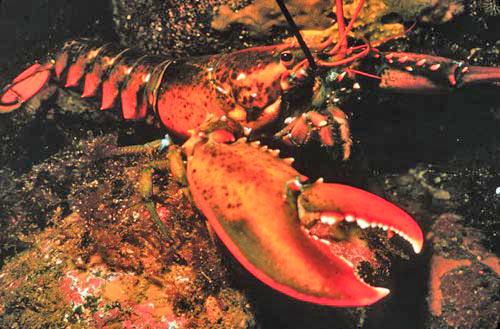 Lobster